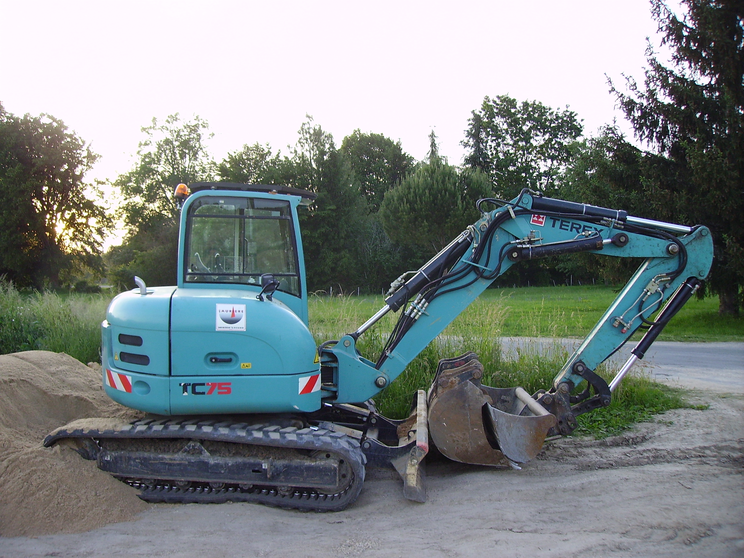 Terex TC75 midi crawler excavator. Operating weight: 7.5 t. Engine power: 74 hp. Bucket capacity: 65-335 l.